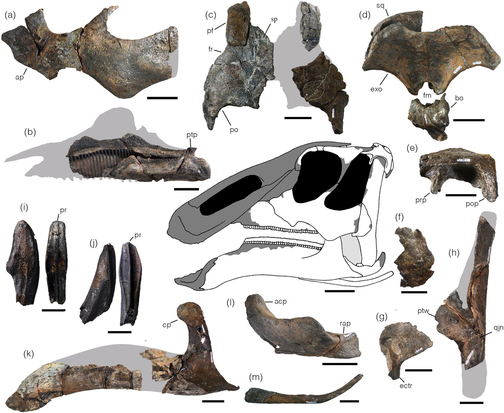 Selected skull elements of Kamuysaurus japonicus gen. et sp. nov. (a) Right jugal in lateral view (reversed); (b) right maxilla in lateral view (reversed); (c) prefrontals, frontals, and postorbitals in dorsal view; (d) squamosal, exoccipital, basioccipital, and basisphenoid in posterior view; (e) left squamosal in lateral view; (f), right quadratojugal in lateral view (reversed); (g) left pterygoid in lateral view; (h) left quadrate in lateral view; (i) maxillary tooth in labial and distal views; (j) dentary tooth in lingual and distal views; (k) right dentary in lateral view (reversed); (l) right surangular in lateral view (reserved); (m) right ceratobranchial in lateral view (reversed). All scales are 5 cm except 1 cm scale bar for (i,j). Abbreviations: acp, ascending process; ap, anterior process; bo, basioccipital; cp, coronoid process; ectr, ectopterygoid ramus; exo, exoccipital; fm, foramen magnum; fr, frontal; pf, prefrontal; po, postorbital; pop, postcotyloid process; pr, primary ridge; prp, precotyloid process; ptp, pterygoid process; ptw, pterygoid wing; qjn, quadratojugal notch; rap, retroarticular process; sp, sutural platform; sq, squamosal. Grey areas are missing parts.